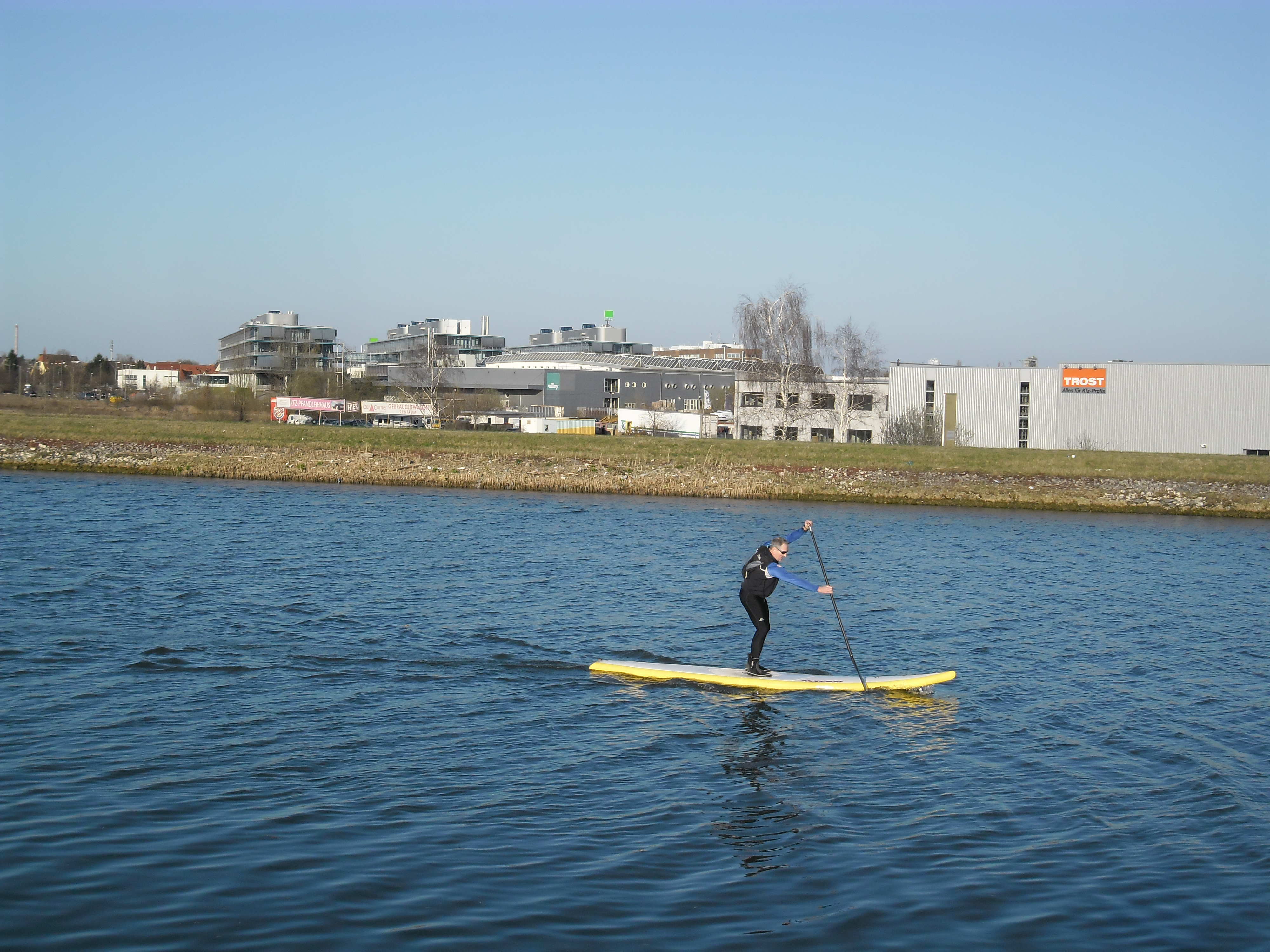 Man stand up paddling on the Rhine–Main–Danube Canal in Nuremberg (Bavaria)